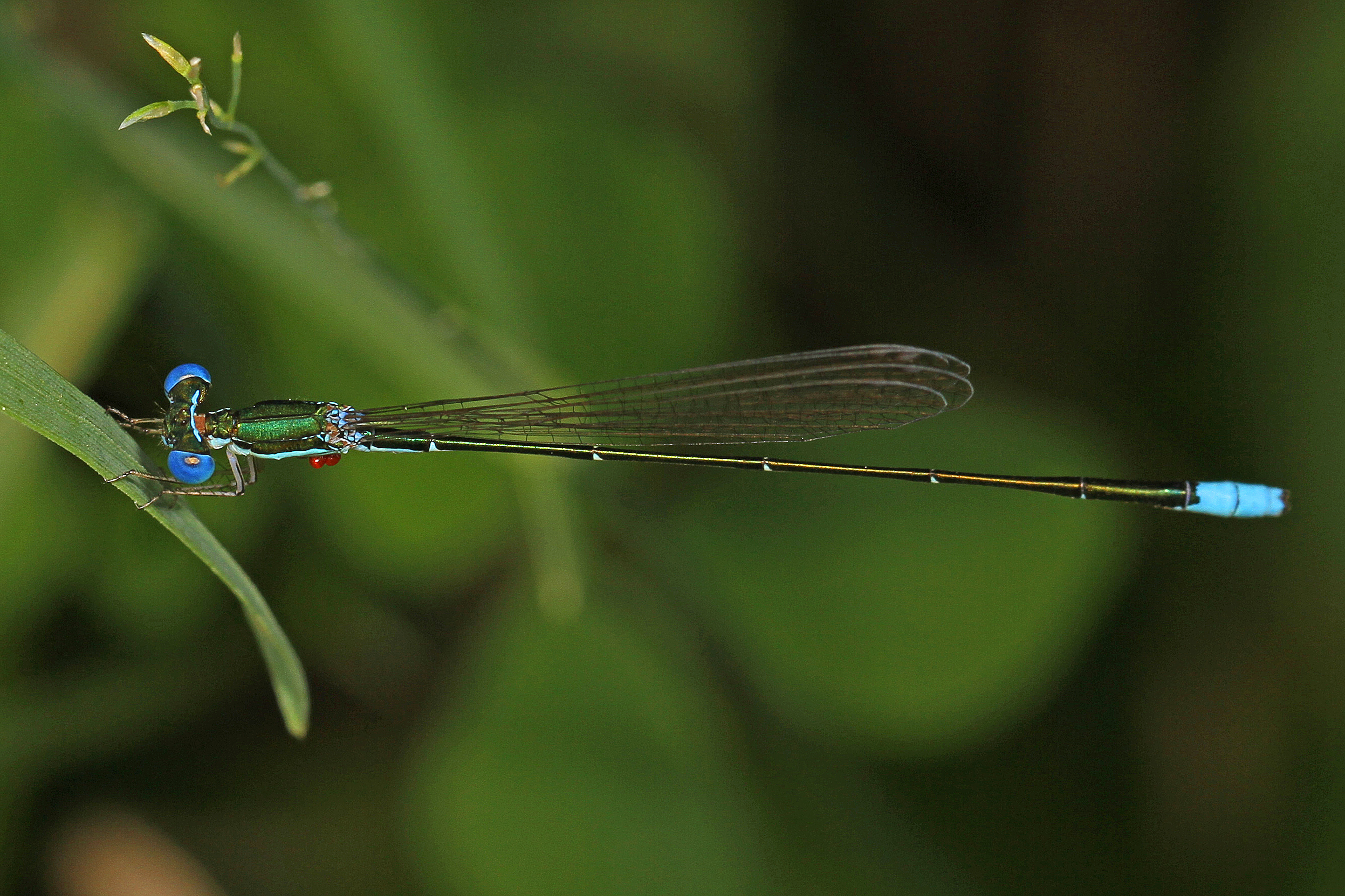 Sphagnum Sprite - Nehalennia gracilis, Andelot Farm, Worton, Maryland. I don't see Sprites very often, so any day I see a Sprite is a special day indeed. Kent County, Md. 6/7/2014